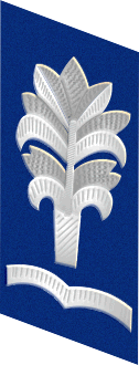 Polish People's Republic Militia collar insignia (for Privates and NCOs) - own work published at website